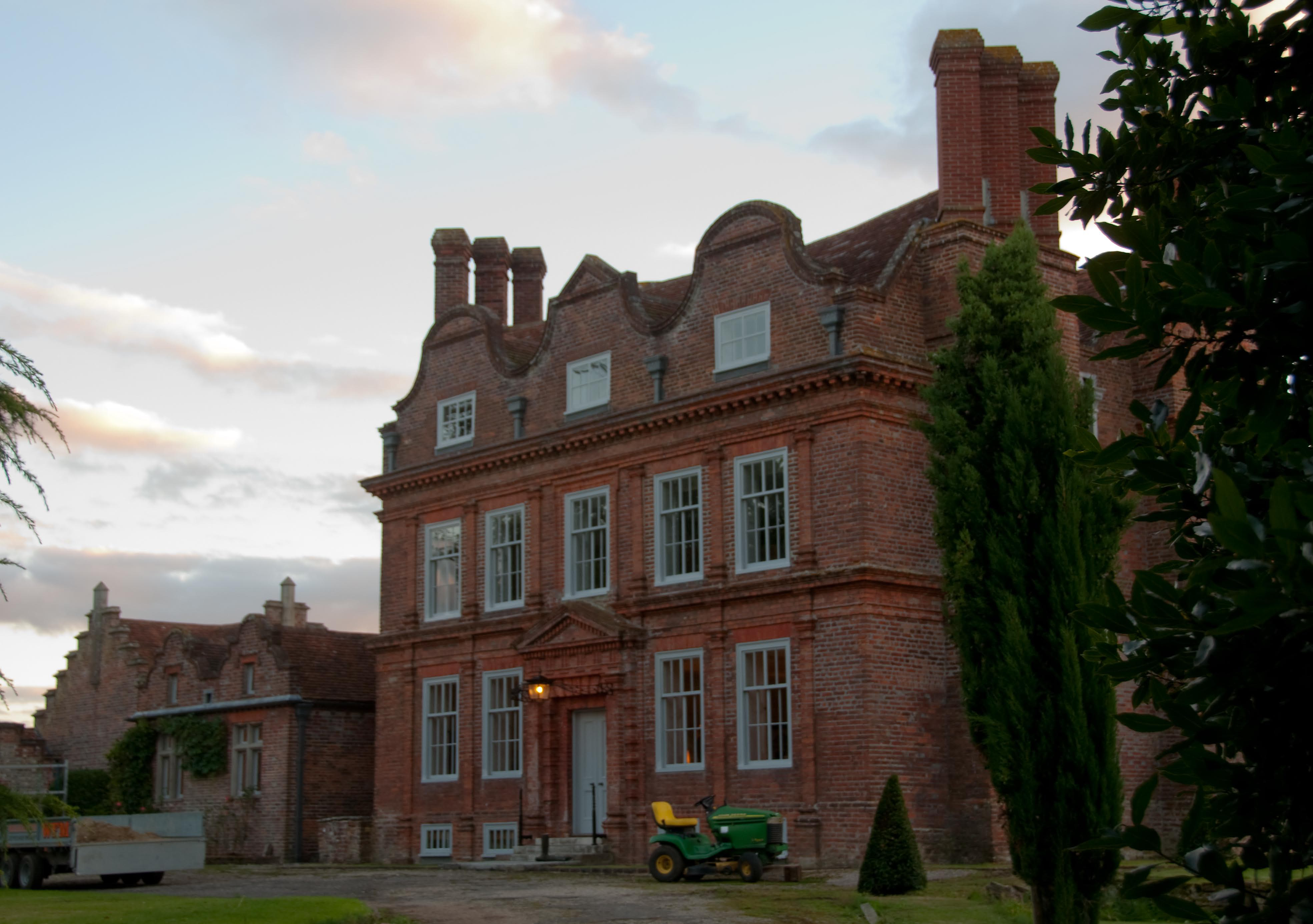 Barnham Court seen from the Southeast